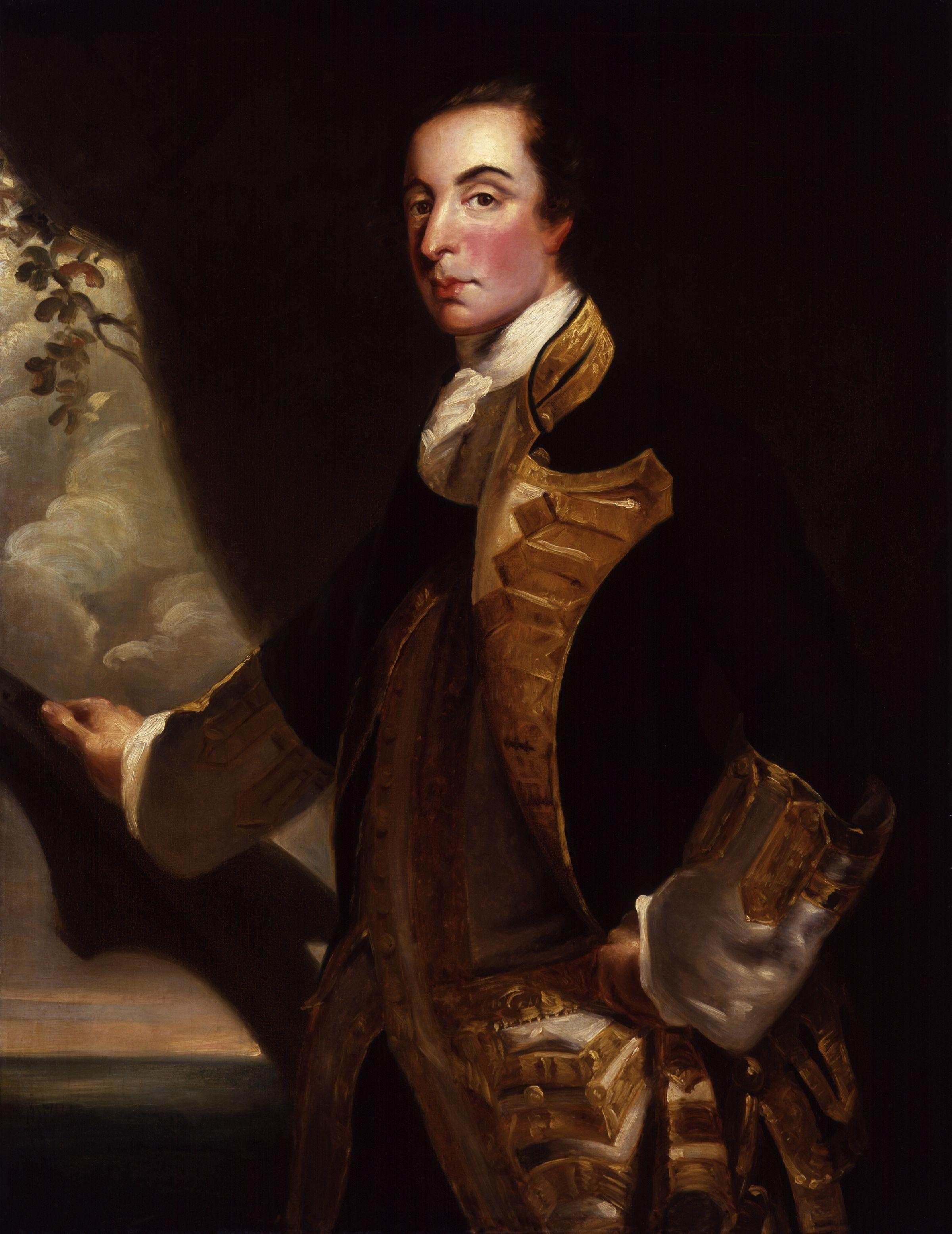 Portrait of George Bridges Rodney, 1st Baron Rodney (1718-1792)